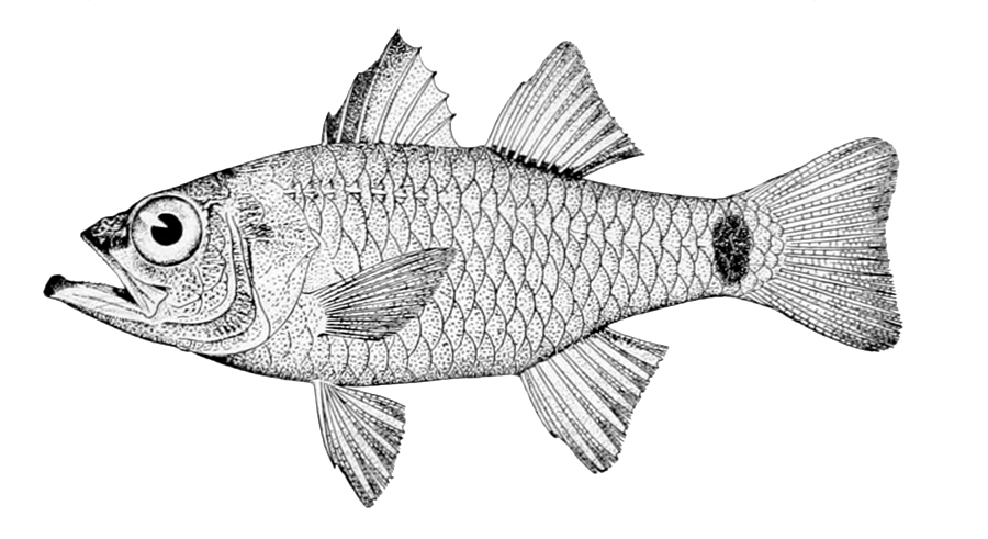 Apogon jenkinsi